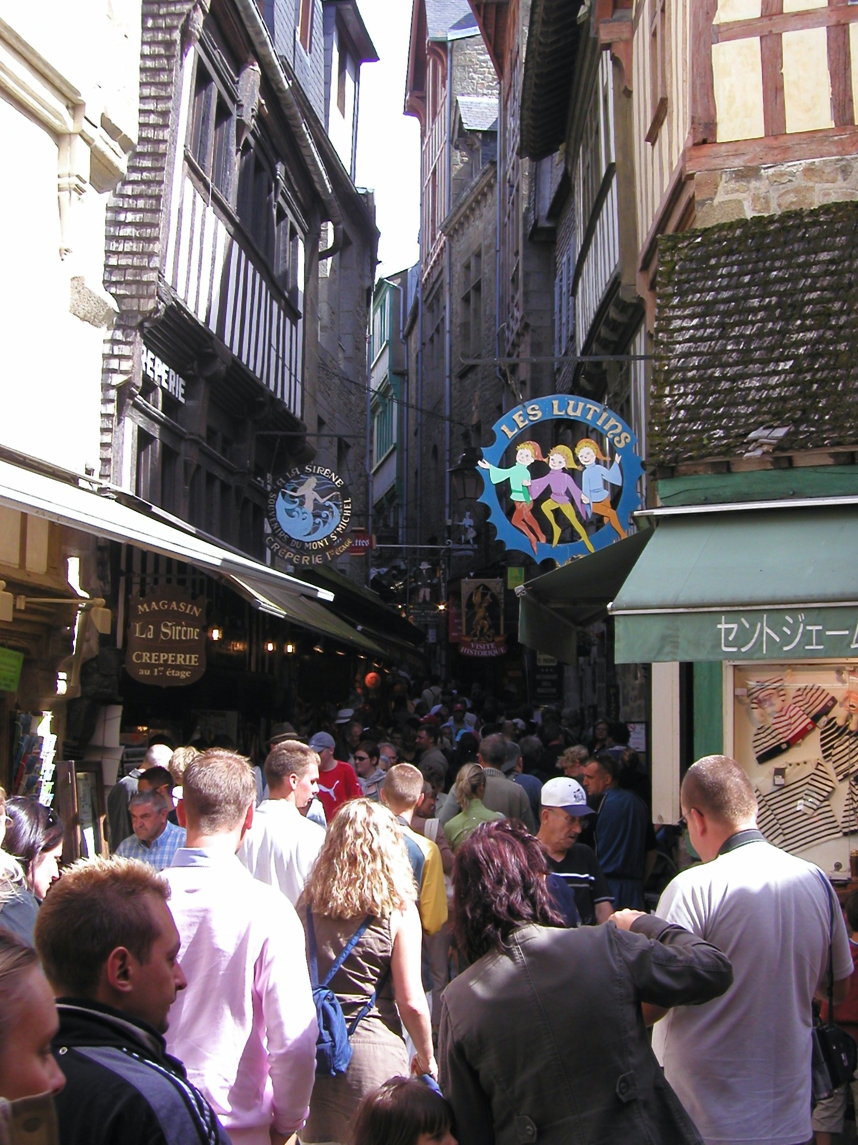 Crowd of visitors in Mont St. Michel